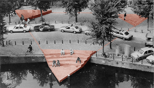 the Homomonument in Amsterdam (color-manipulated photograph)